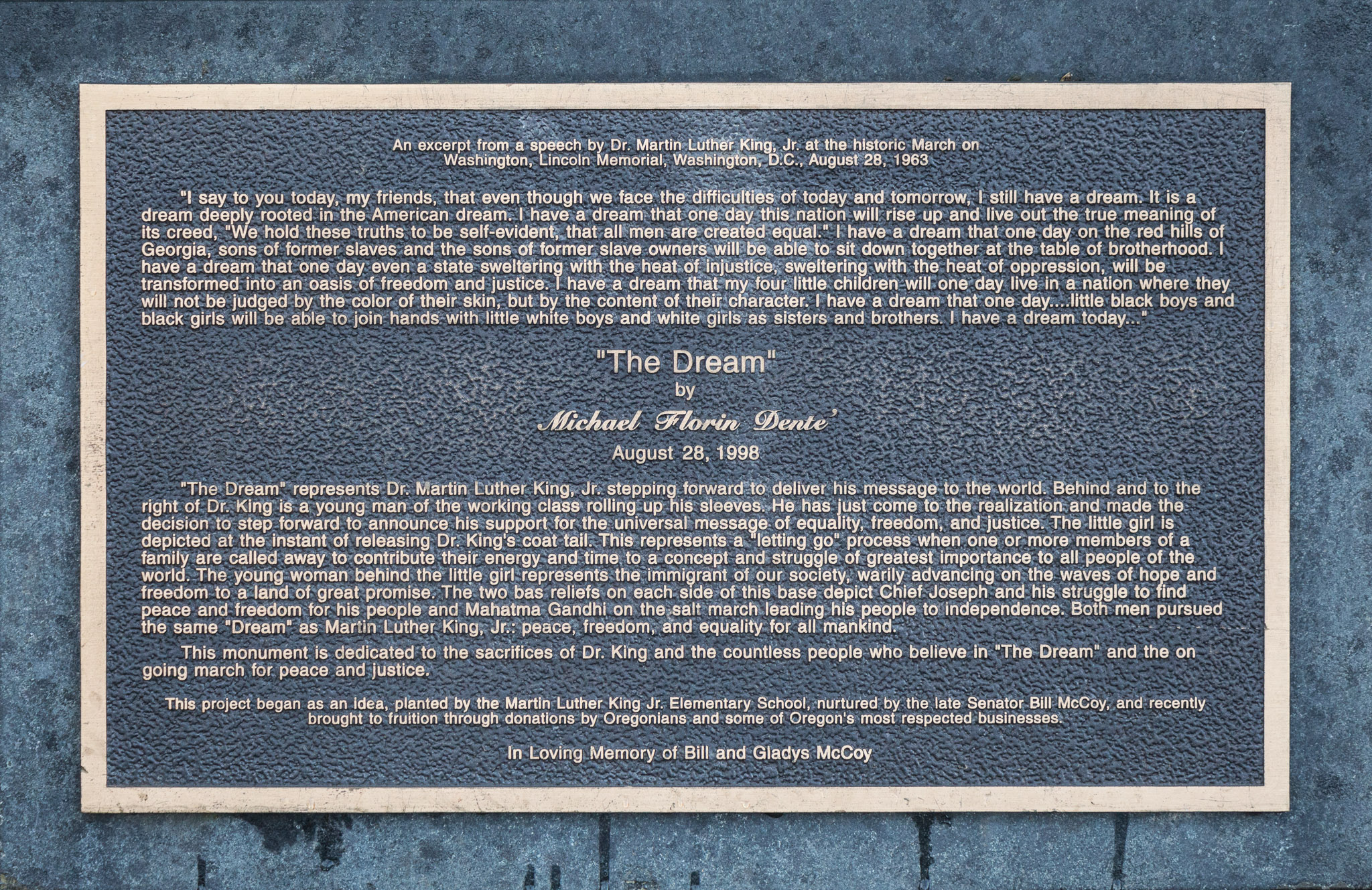 "The Dream" statue in front of Oregon Convention Center, created by artist Michael Florin Dente, August 28, 1998. Photo by Jeremy Jeziorski.